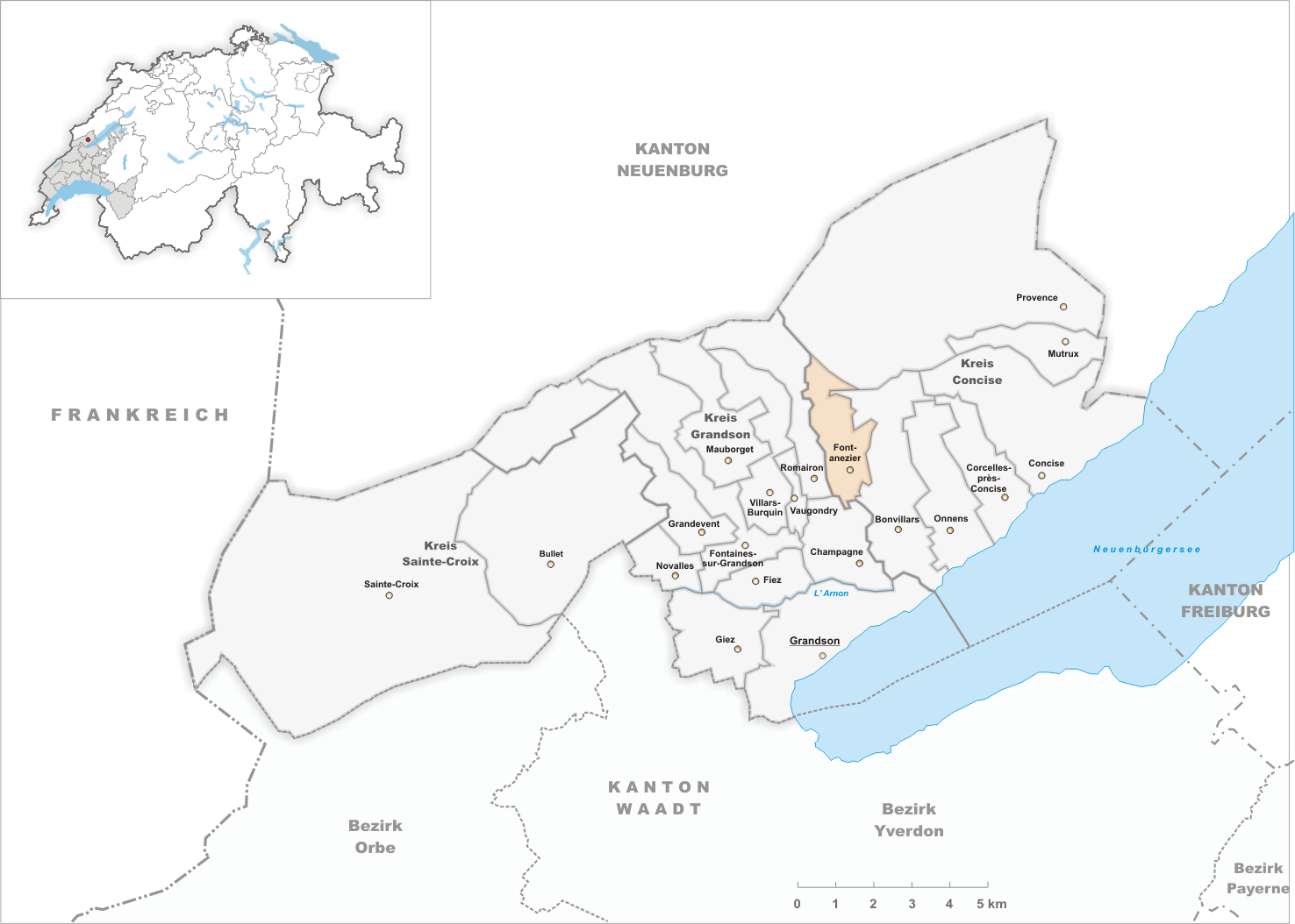 Municipality Fontanezier